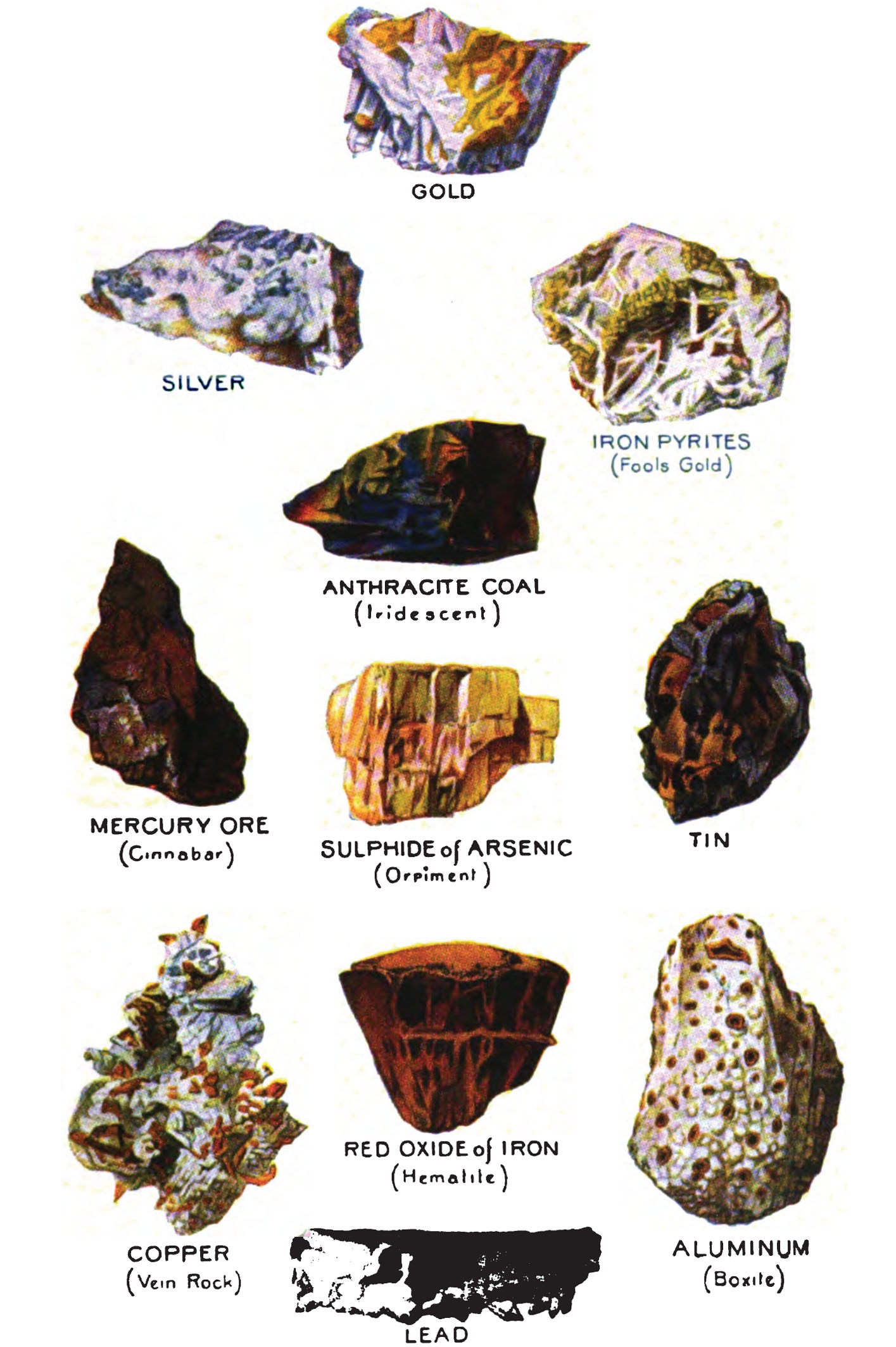 A color chart showing ten minerals corresponding to the raw forms of commercially valuable metals, as well as a sample of coal and iron pyrite.